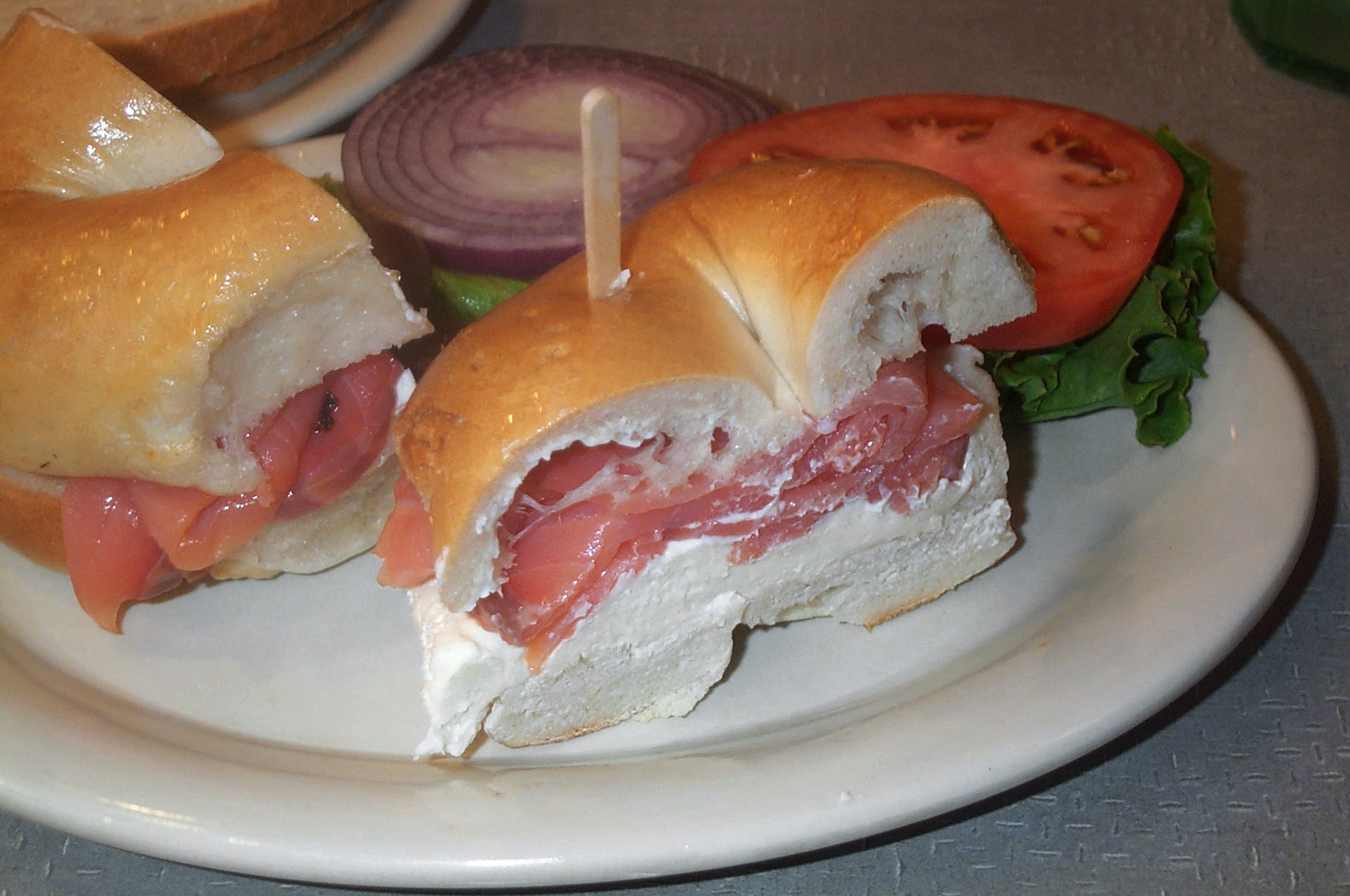 Lox sandwich